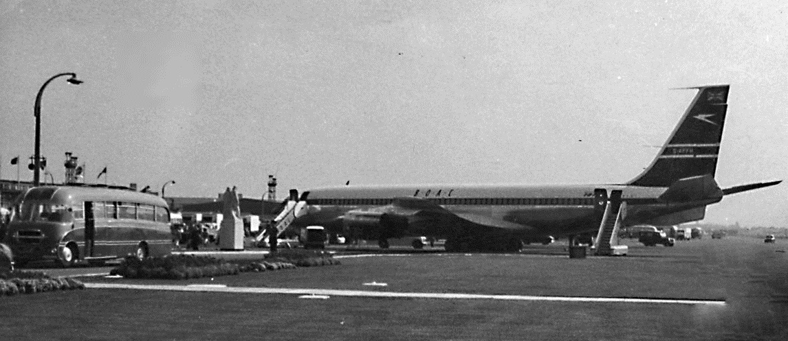 This aircraft went on to serve with BOAC-Cunard and British Airways before going into storage at Kingman, Arizona, where it was eventually broken up.